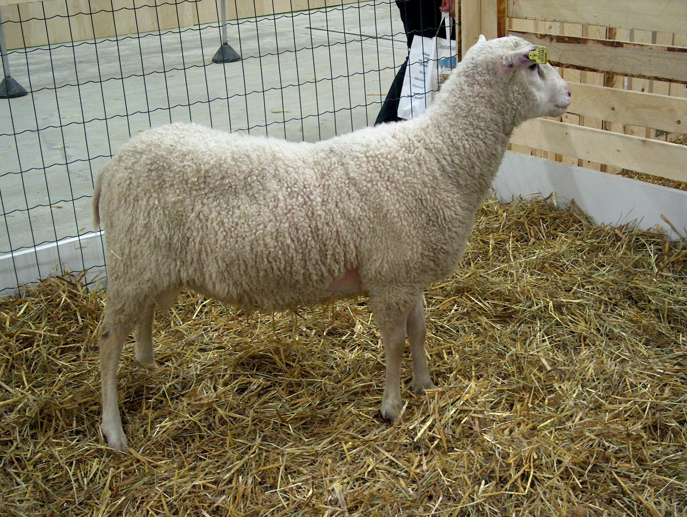 White sheep at ELMA (Living Countryside) Fair in Helsinki 2003